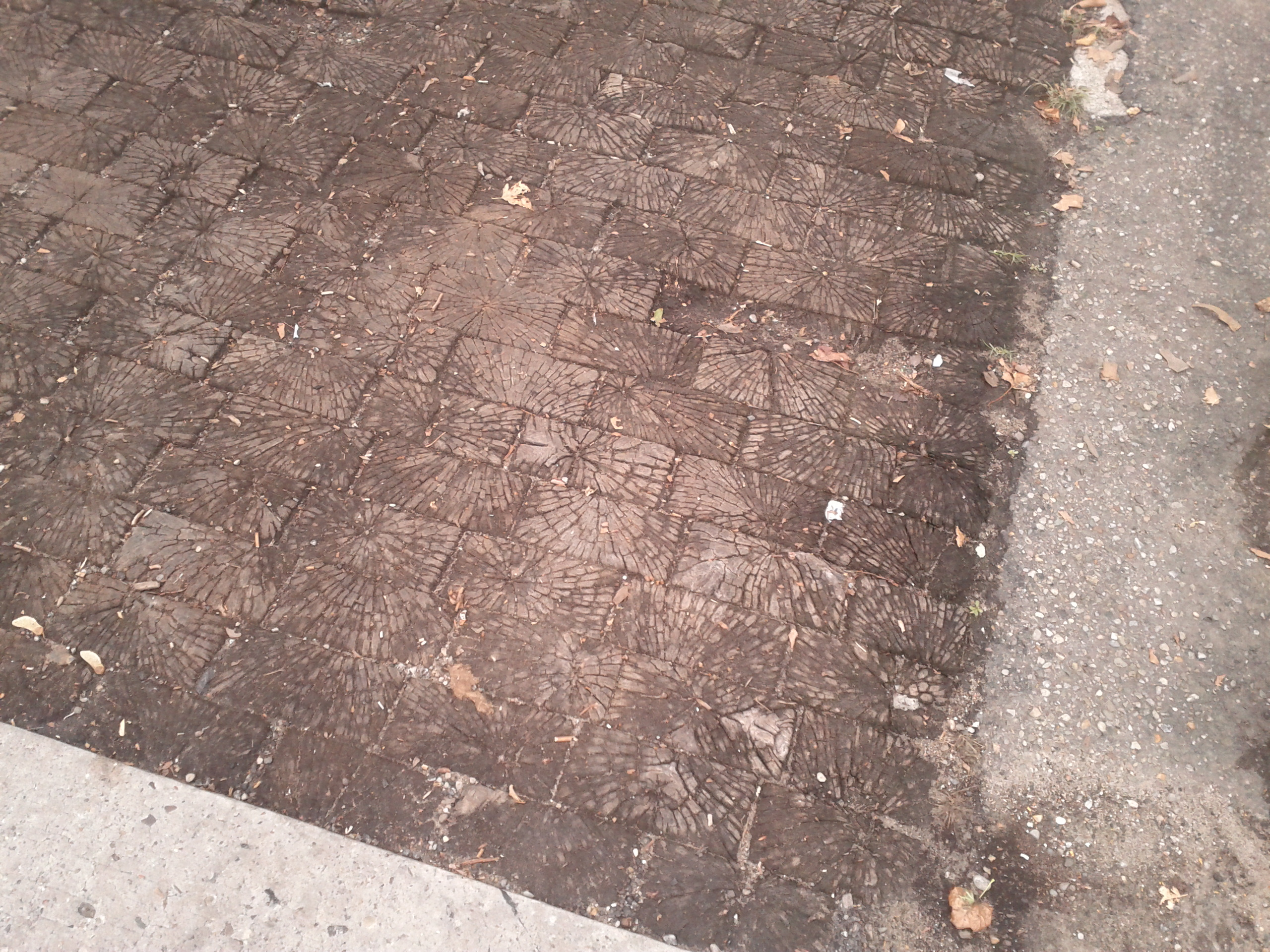 Street paved with wood!